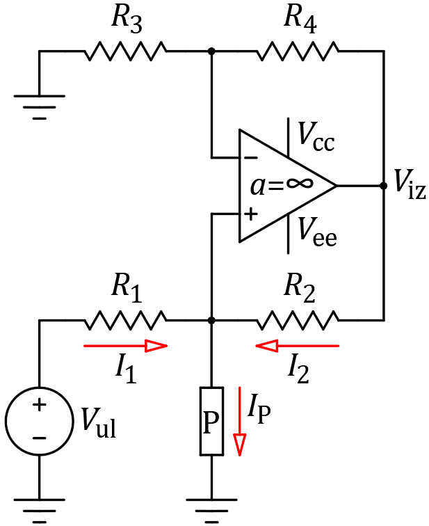 Howland current source - circuit diagram